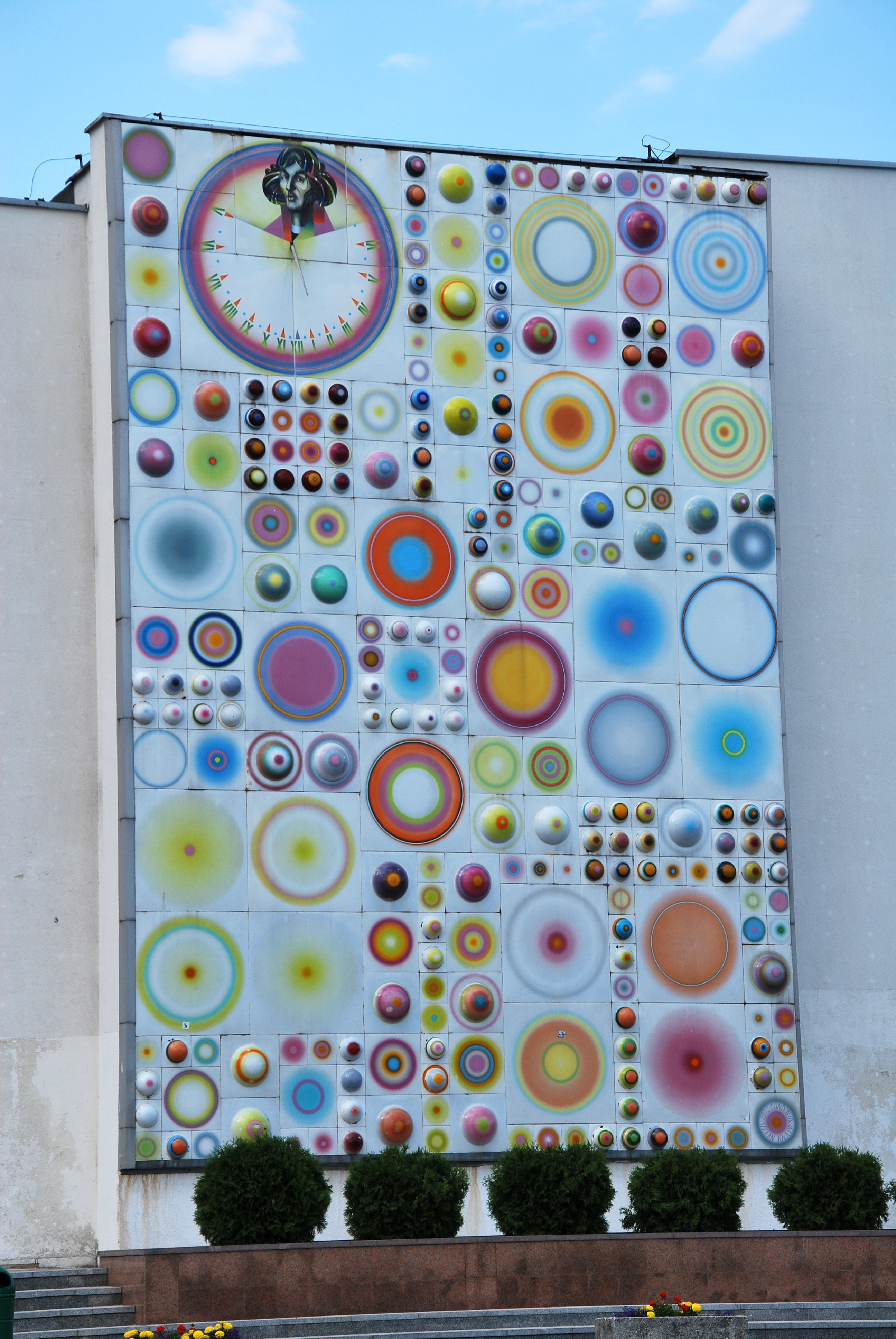 Nicolaus Copernicus University in Toruń, Stefan Knapp mosaic